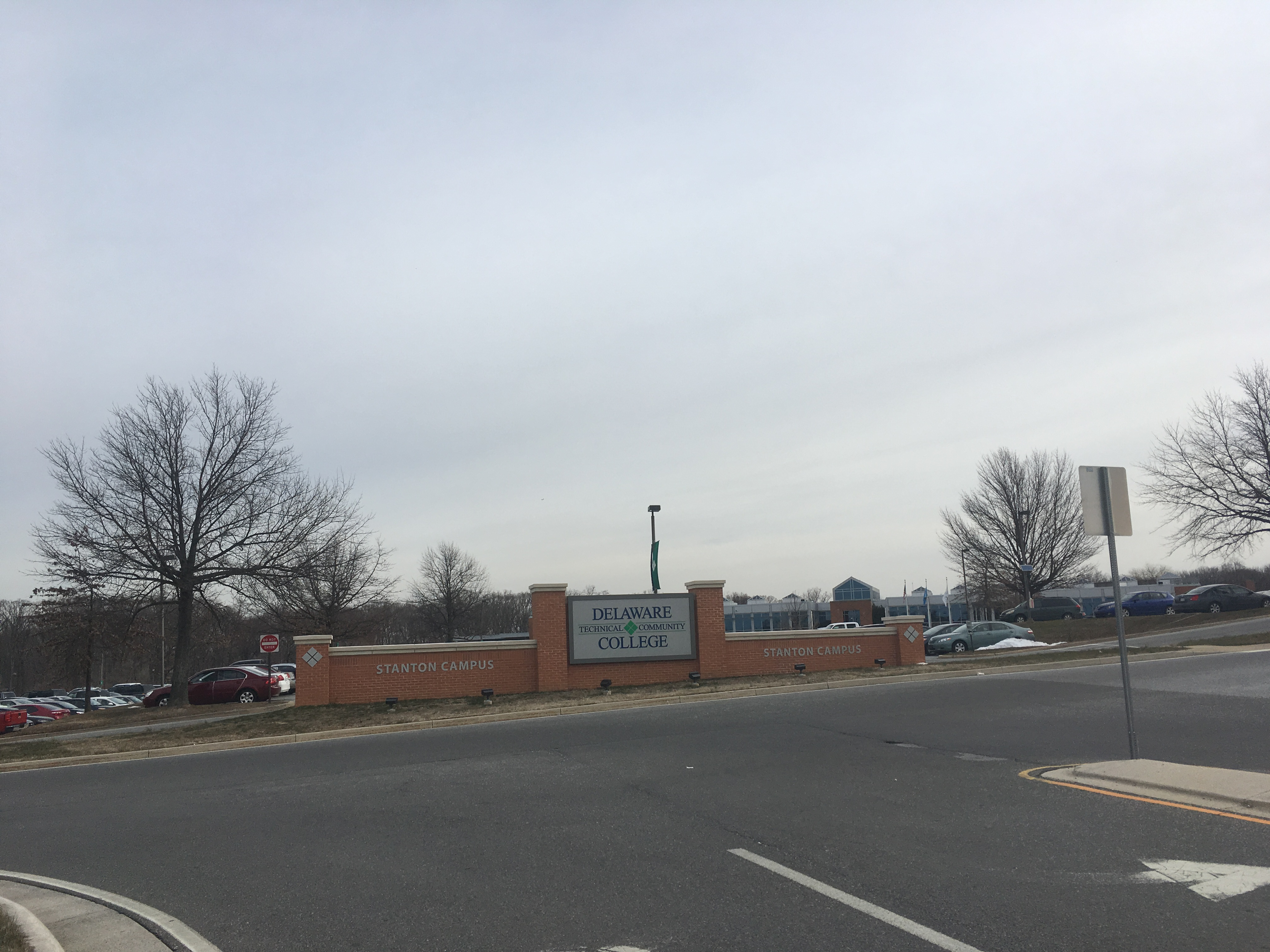 The entrance to the Stanton Campus of Delaware Technical Community College near Stanton, Delaware